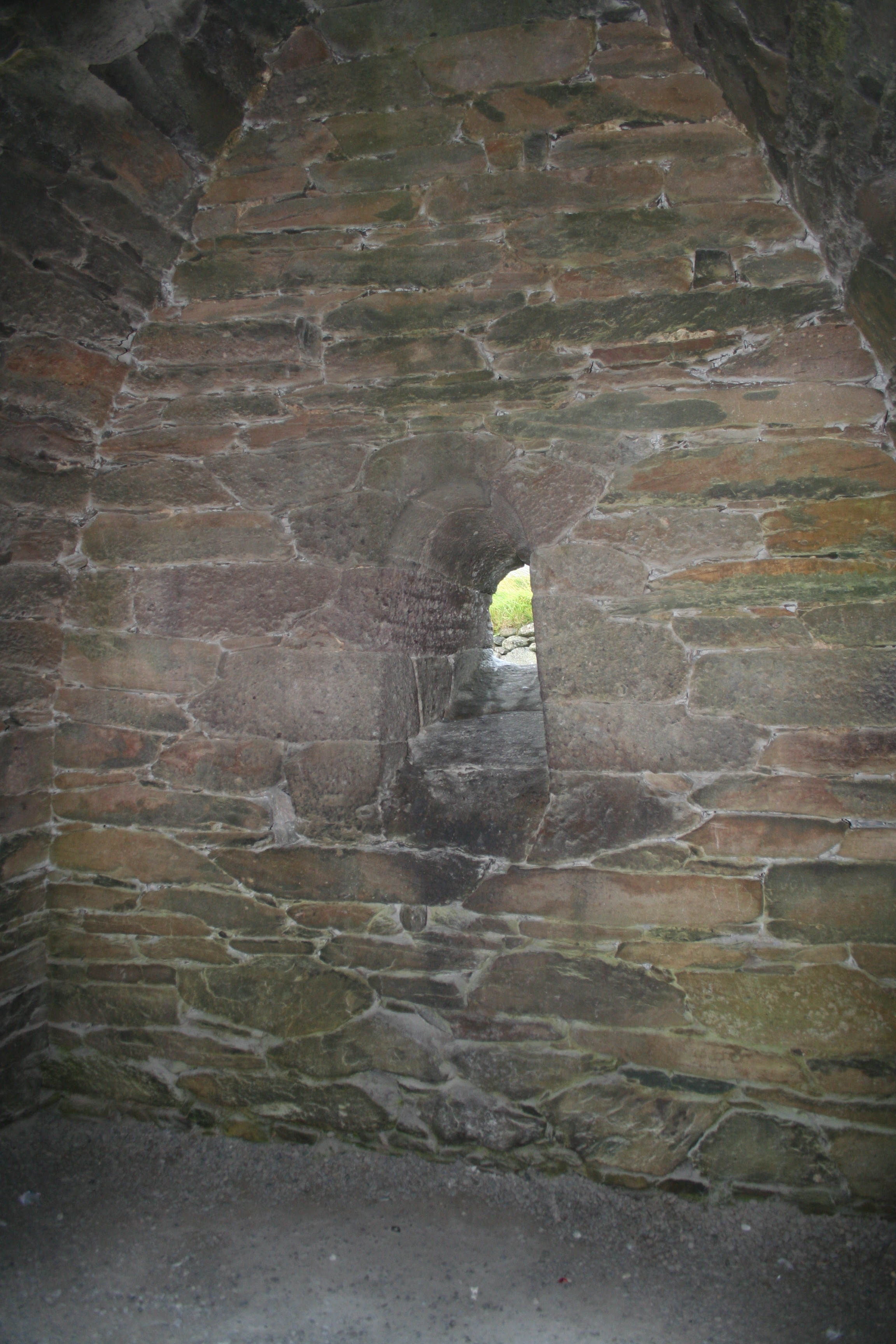 Gallarus oratoryGallarus oratory